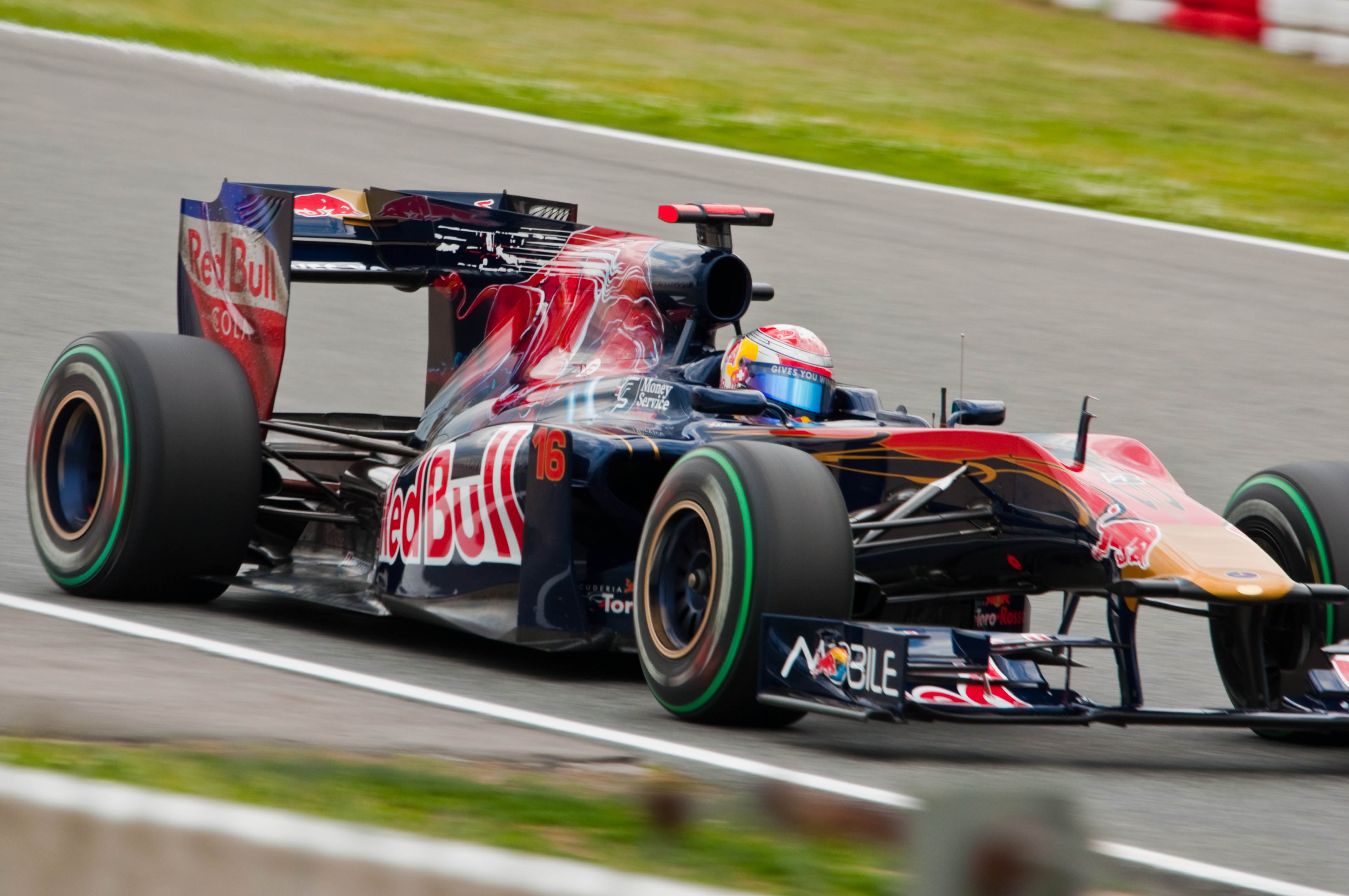 Sébastien Buemi driving for Scuderia Toro Rosso at the 2010 Spanish Grand Prix.